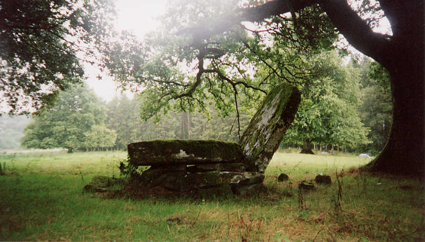 Cloch an Draoi ('Druid's Altar'), a Bronze Age tomb on the Lough Rynn estate.